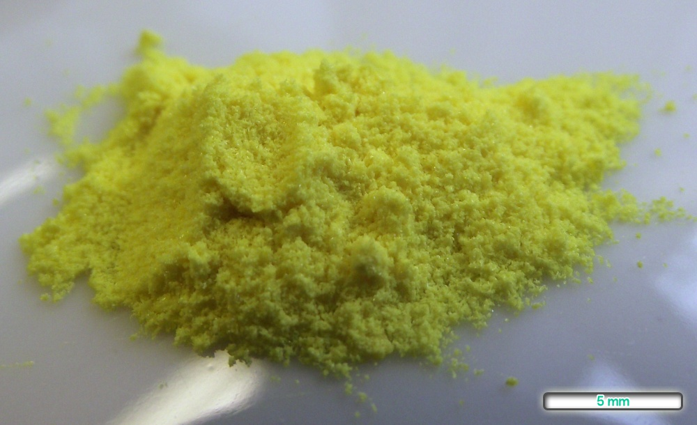 Photo of Ethacridine lactate, pure